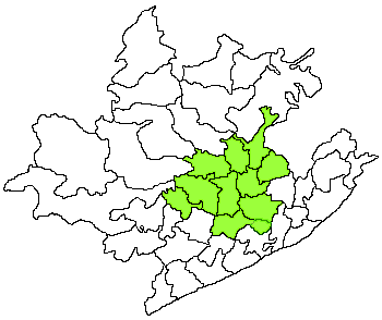 Anakapalle revenue division (in green) in Visakhapatnam district